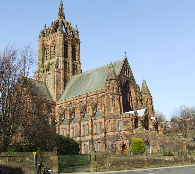 Coats Memorial baptist Church, Paisley, Scotland. Claims to be the largest Baptist church in the world. Designed by Hippolyte J Blanc, 1885